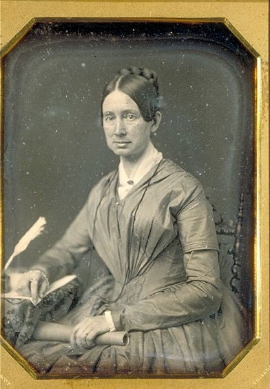 Daguerreotype of American activist Dorothea Dix (1802-1887). Date given by source as 1848-1849. bMS Am 1838 (994.7), Houghton Library, Harvard University